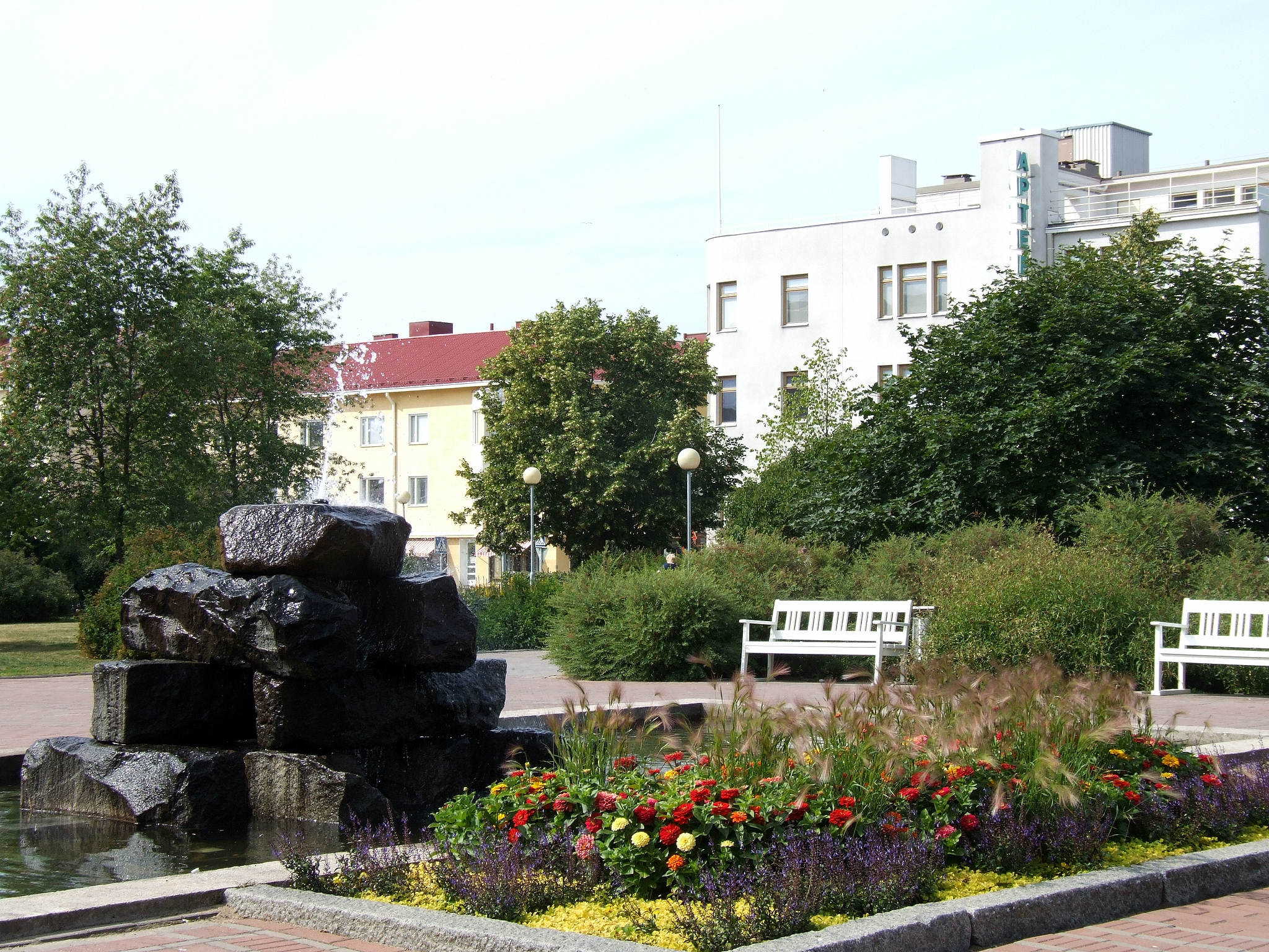 Mannerheim park in Oulu, Finland.